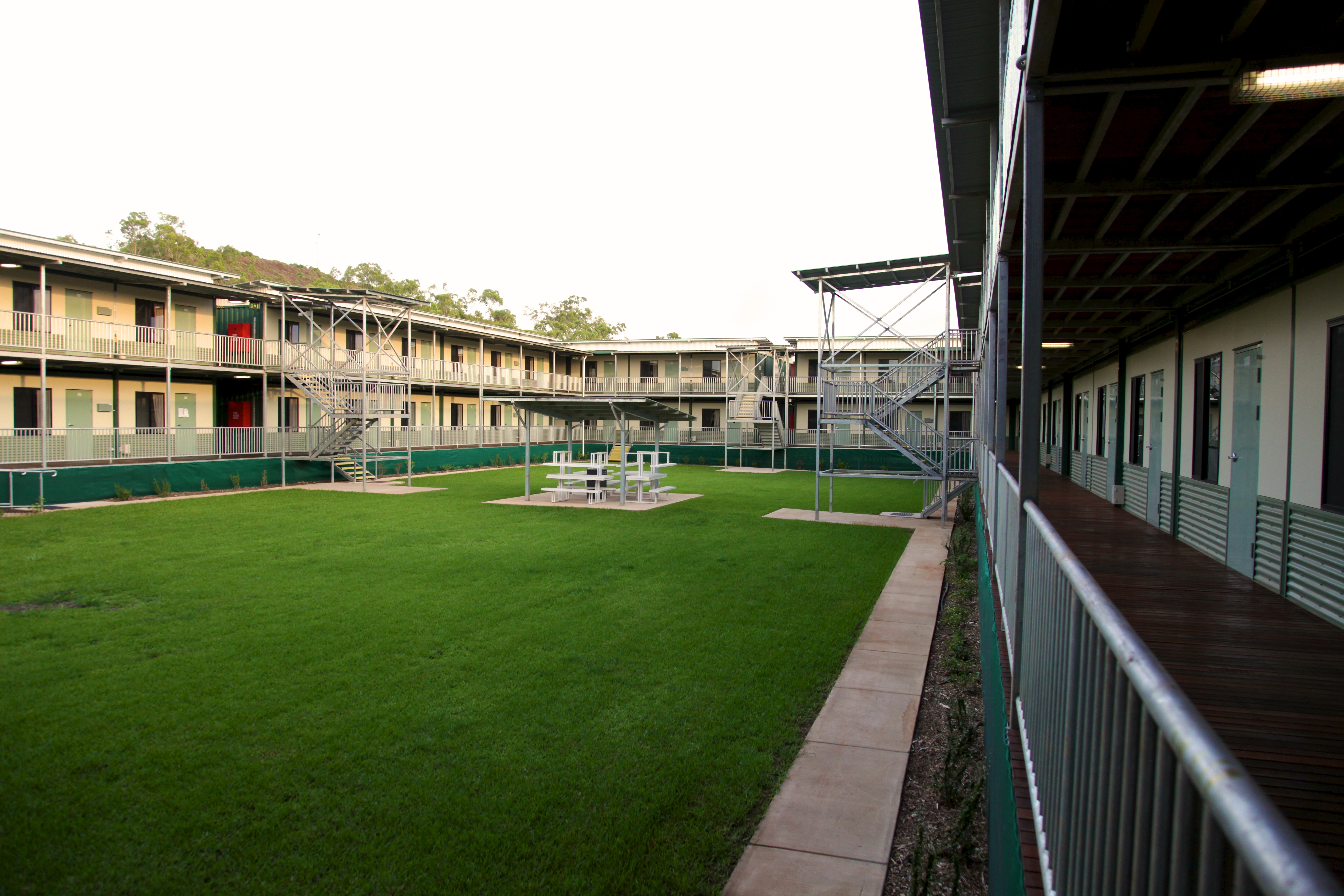 Wickham Point Immigration Detention Centre